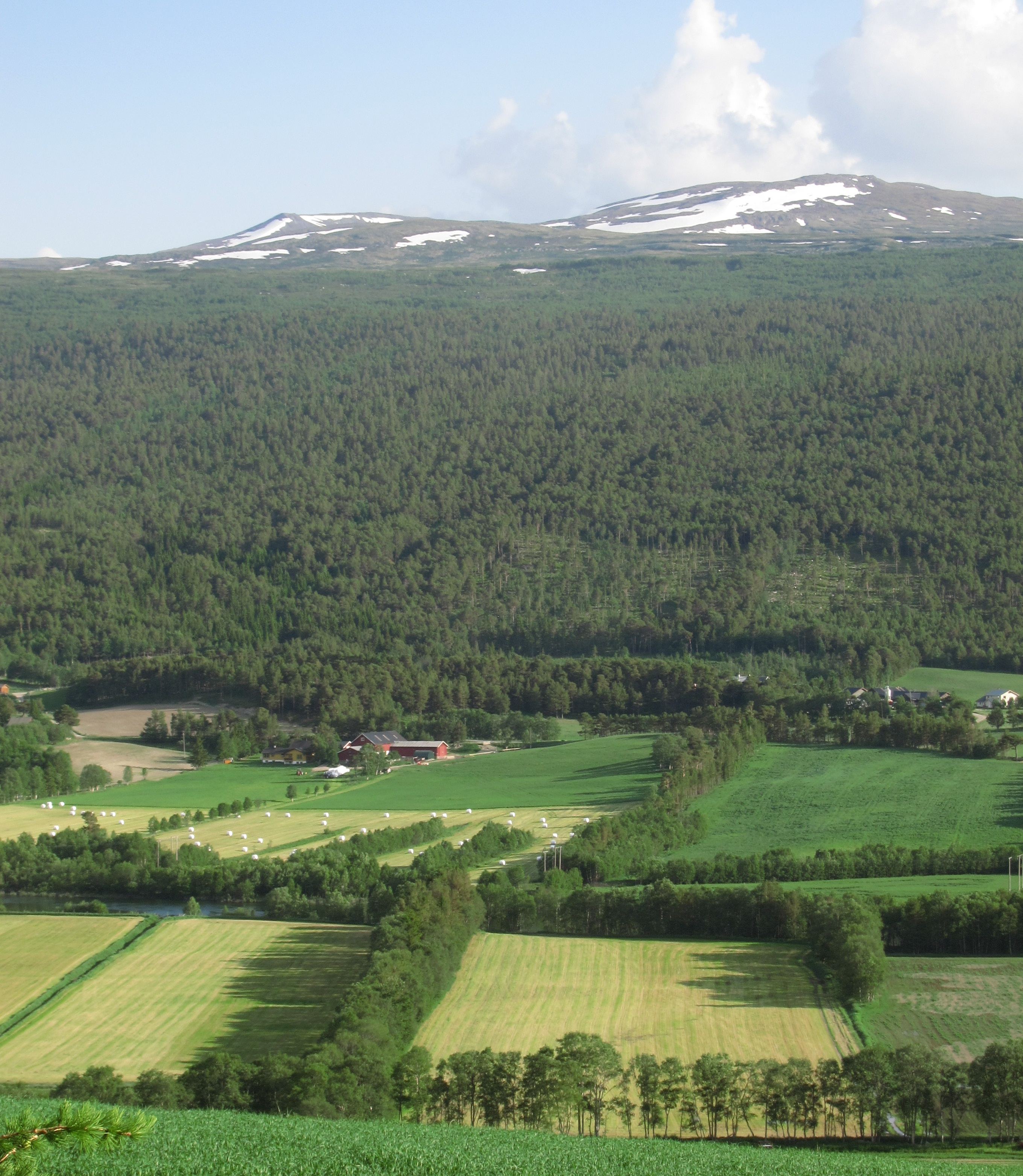 Lesja mosaic landscape, Lågen river at Hattrem.